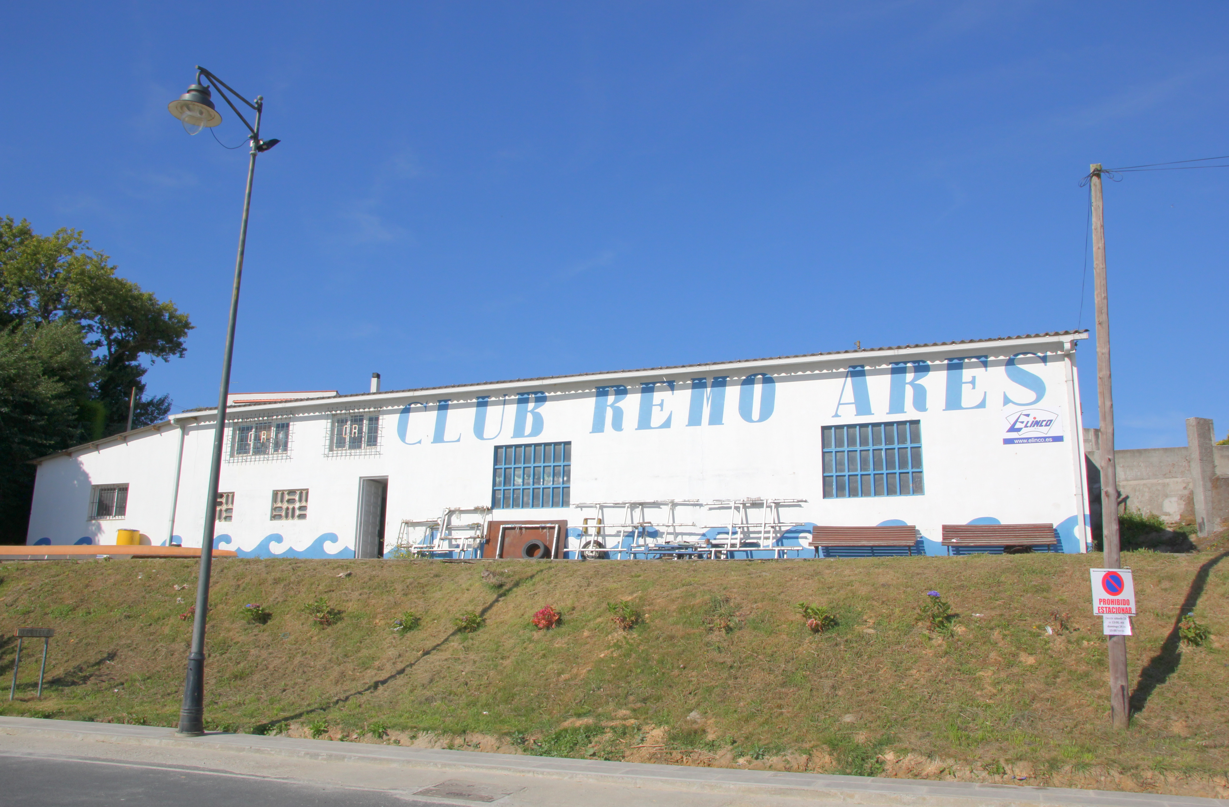 Rowing Club of Ares (Galicia, Spain).